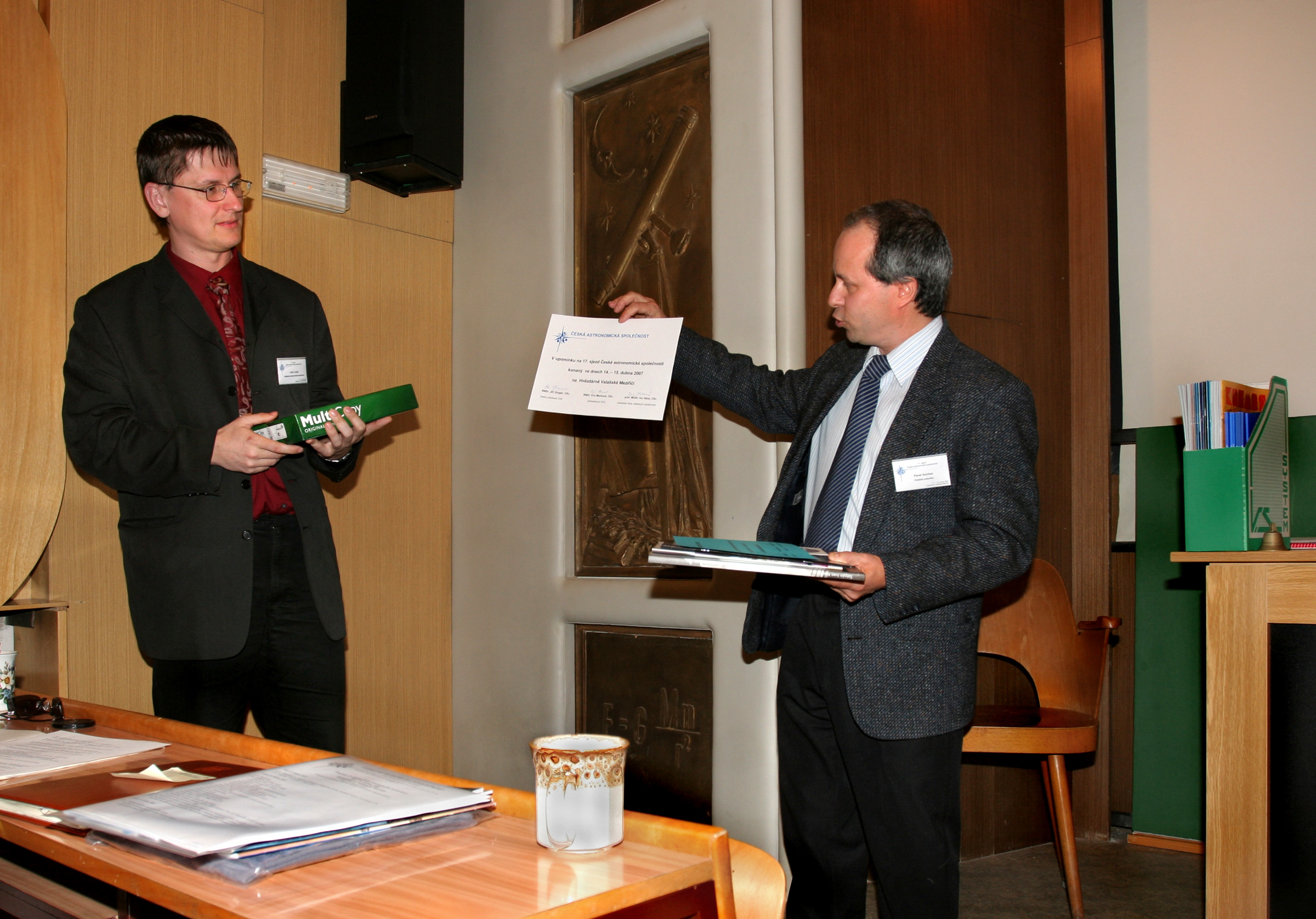 17th Congress of the Czech astronomical society. Libor Lenža and Pavel Suchan.